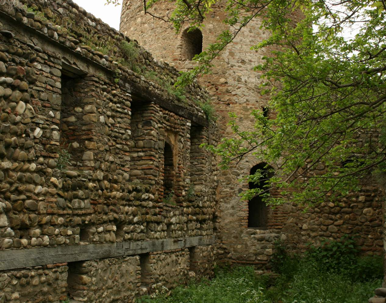 Prince Amilakhvari castle in Kvemo-Chala